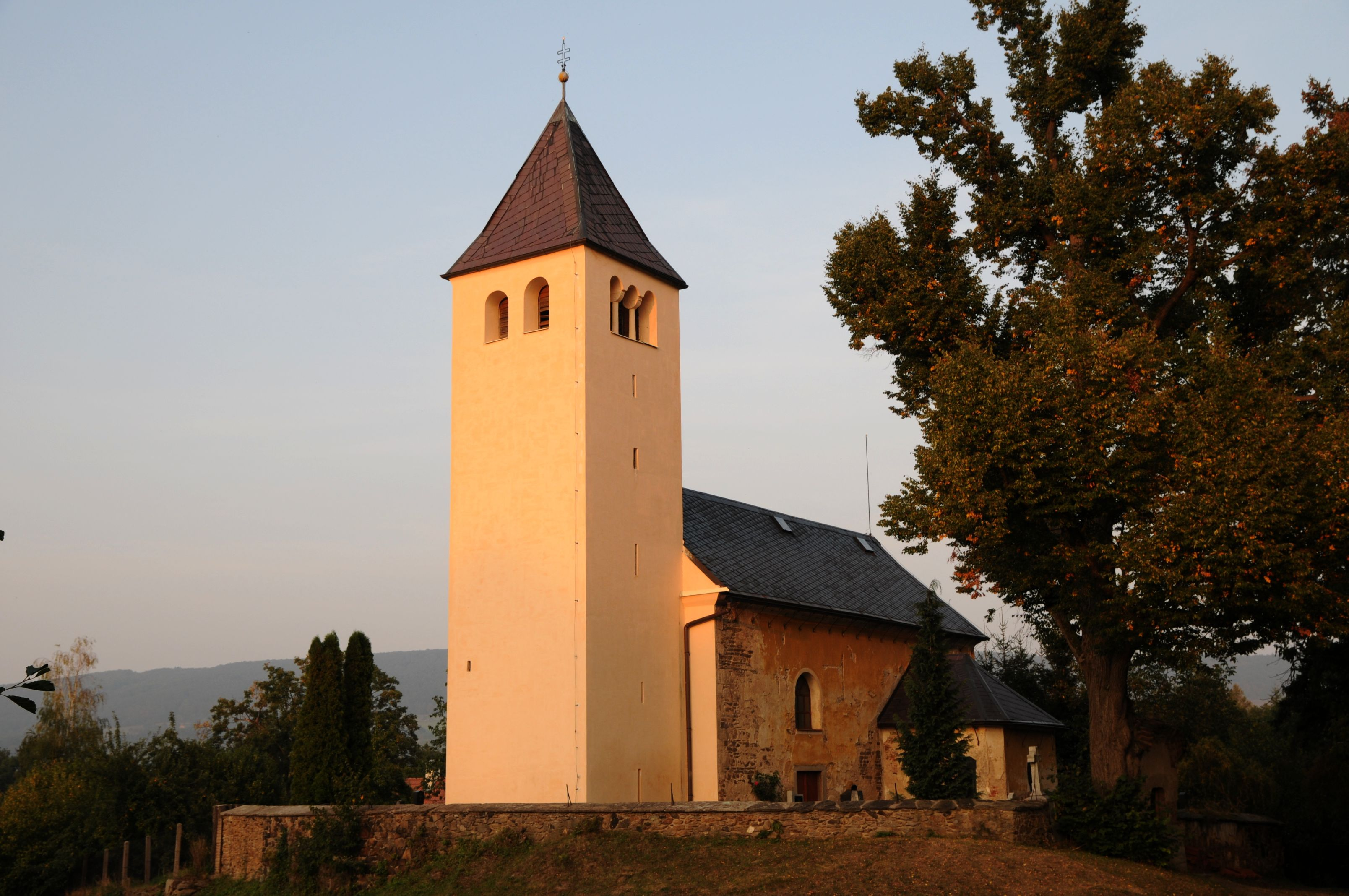 Church sv. Mary Magdalene - Parizov [Czech republic]